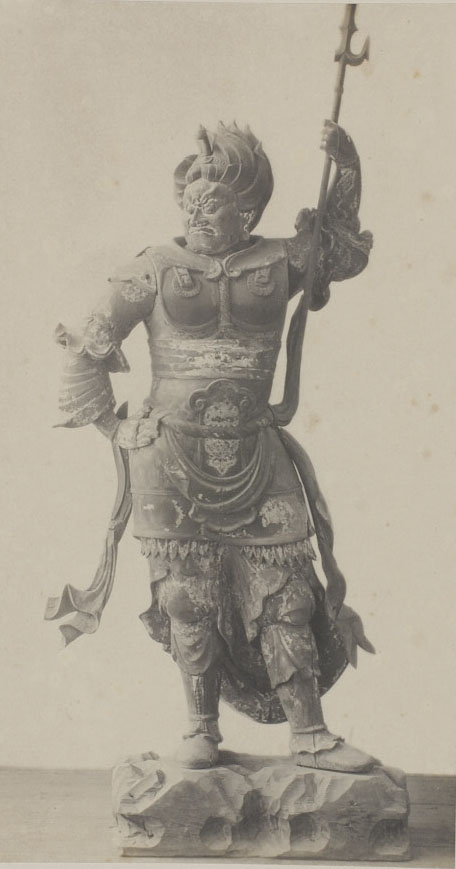 Indra of Twelve Heavenly Generals